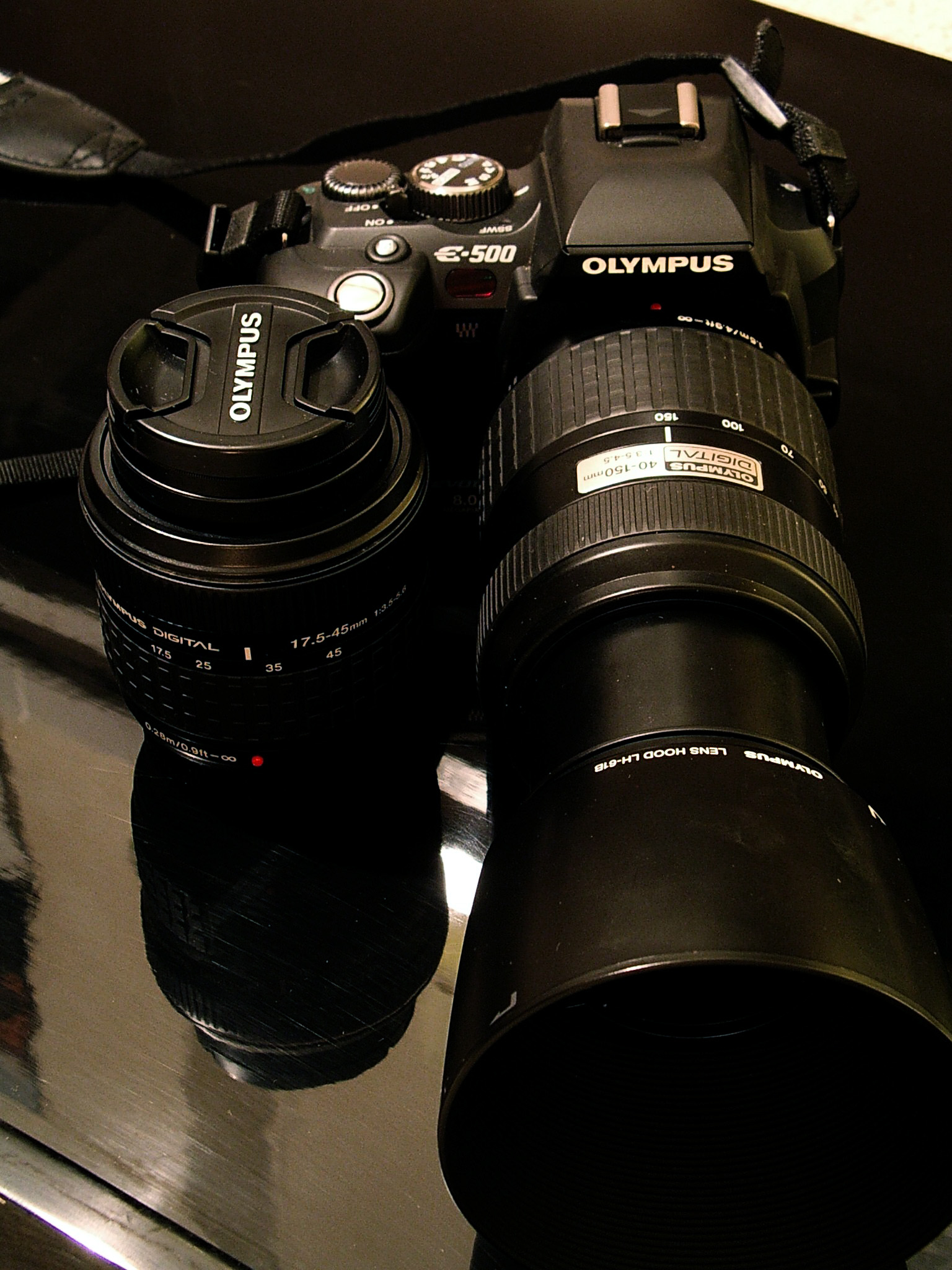 Olympus E-500 digital SLR camera